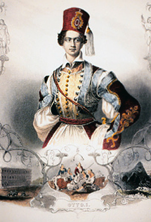 Portrait of King Otto of Greece